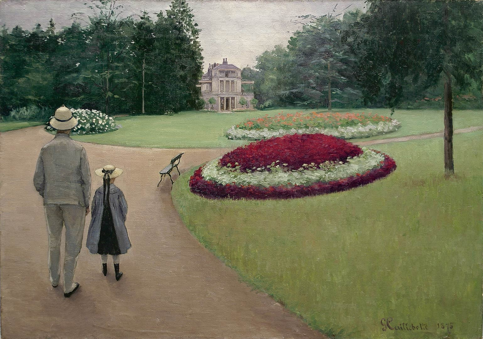 Le parc de la propriété Caillebotte à Yerres – huile sur toile, 65×92 cm, 1875